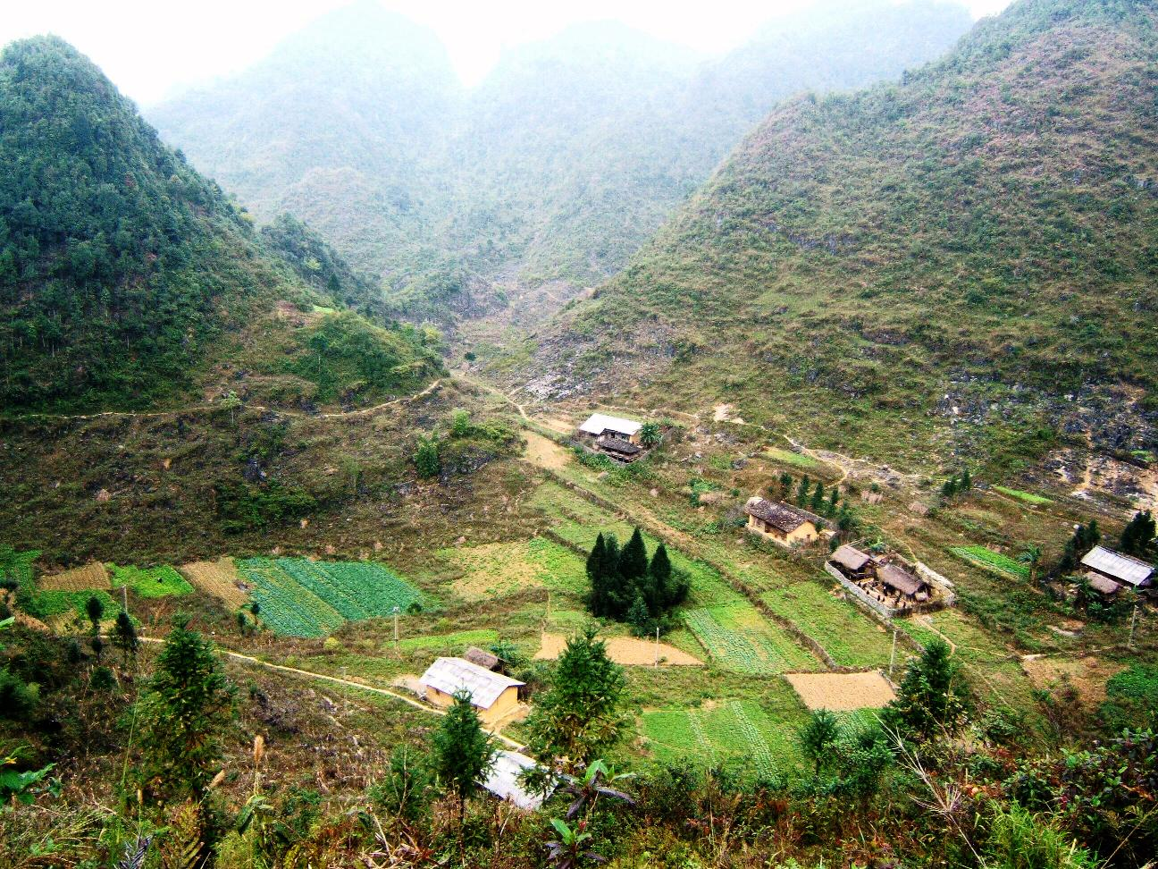 A Doline in Sinh Lung commune, Ha Giang province, Vietnam.